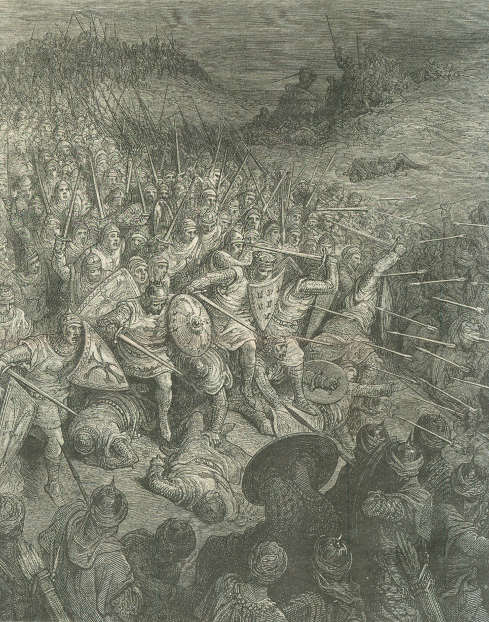 The battle of Dorylaeum in 1097.